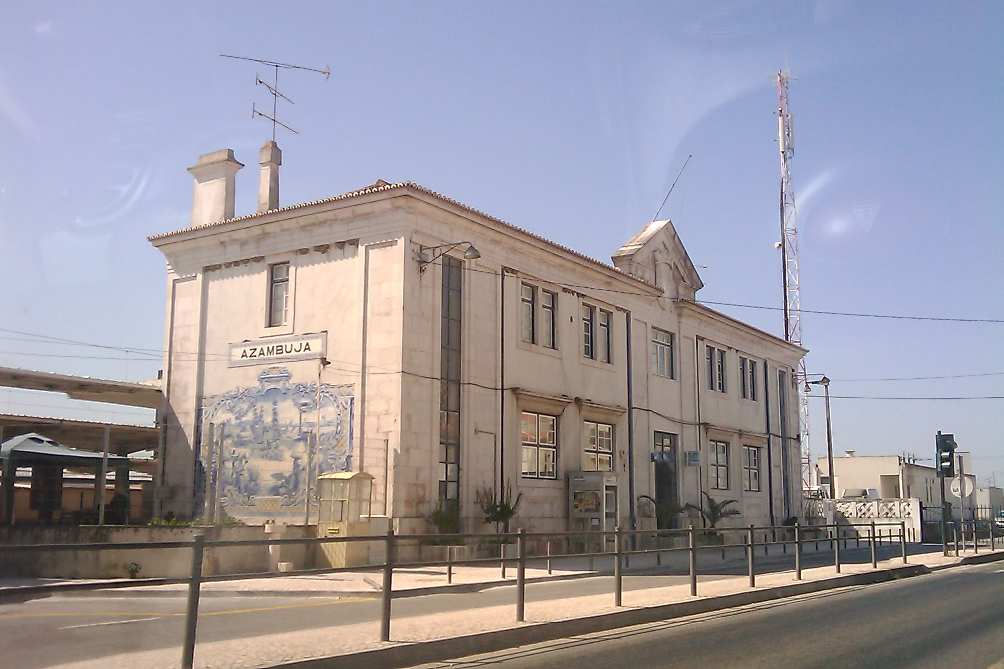 photo by ricardo / This photo is licensed under a Creative Commons license. If you use this photo within the terms of the license or make special arrangements to use the photo, please list the photo credit as "ricardo / " and link the credit to .